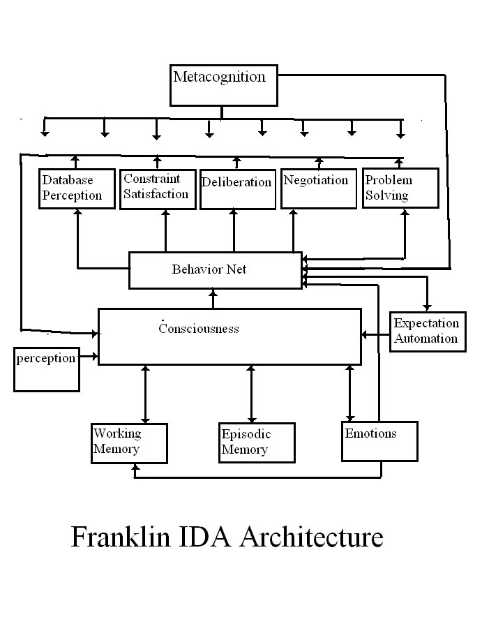 Adapted from CCRG website diagram, drawn in paint and converted to Jpeg format in Adobe photodeluxe